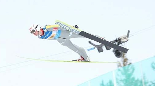 Rune Velta during team competition of FIS Ski-Flying World Championships 2012 in Vikersund.